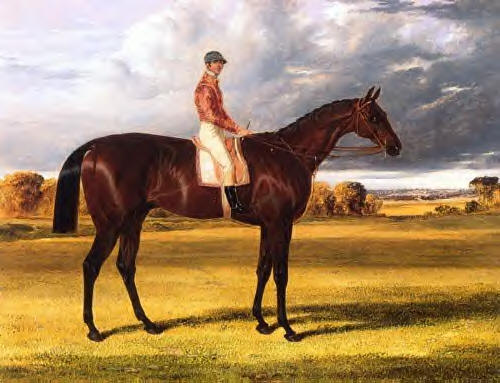 Epsom Derby winner, Amato (1835-1841)